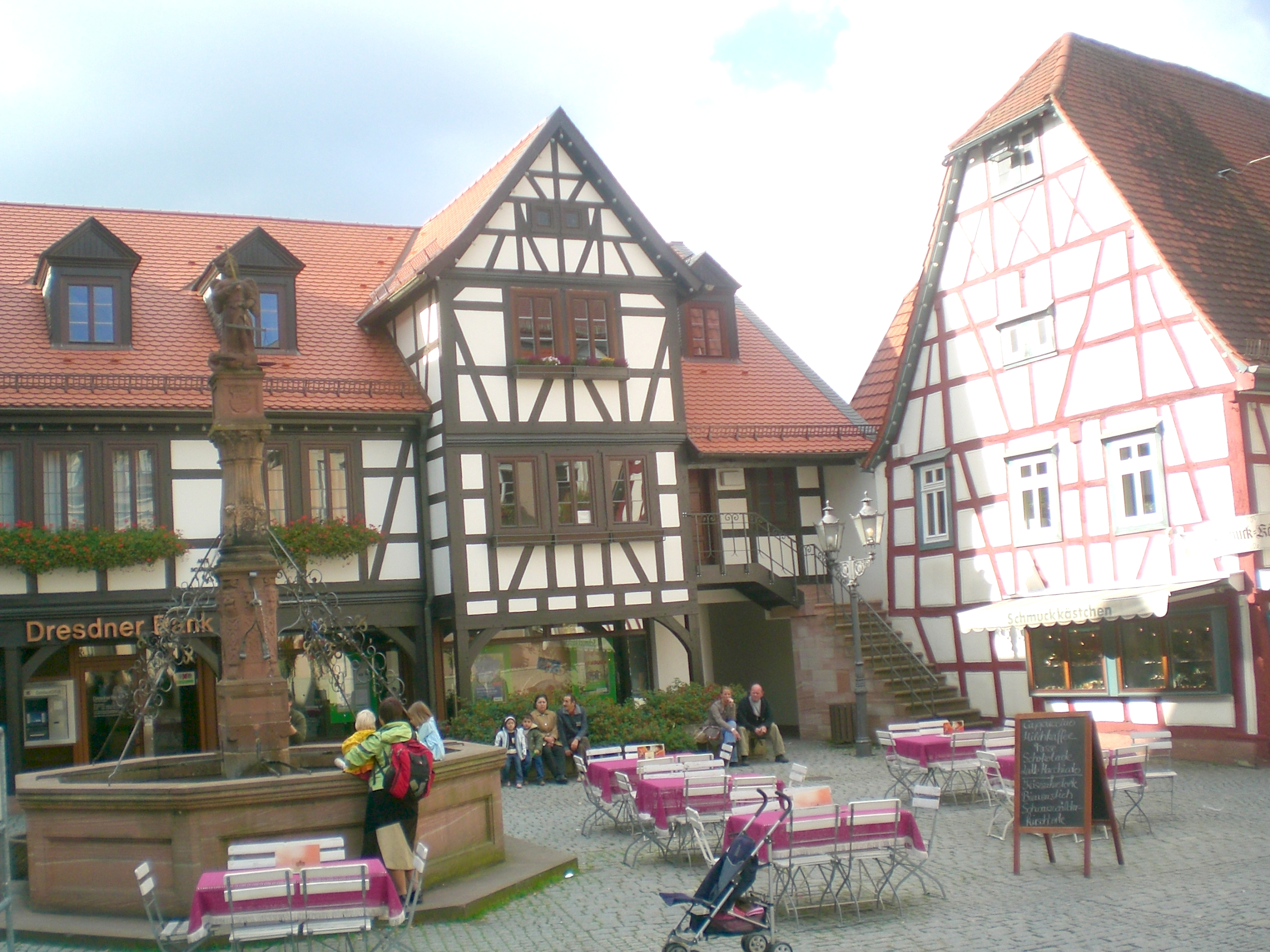 The historical market square in Michelstadt, Germany